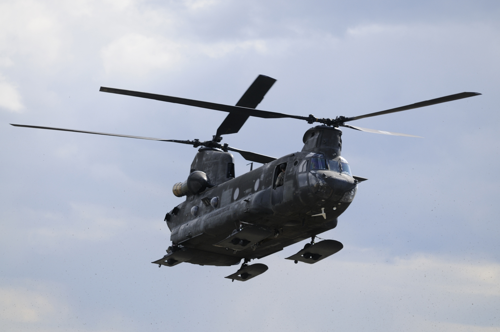 This U.S. Army CH-47 Chinook helicopter, assigned to B Company, 1st Battalion, 52nd Aviation Regiment, lands at Fort Wainwright's Hangar 1 while carrying a load of Junior ROTC cadets for a half-hour ride.